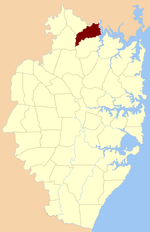 original location of the parish within Cumberland County, New South Wales (Sydney area)